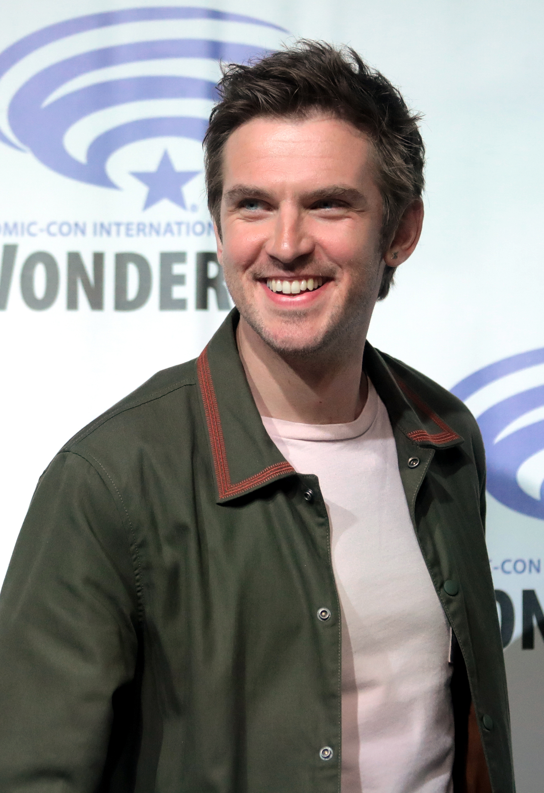 Dan Stevens at the 2019 WonderCon in Anaheim, California.